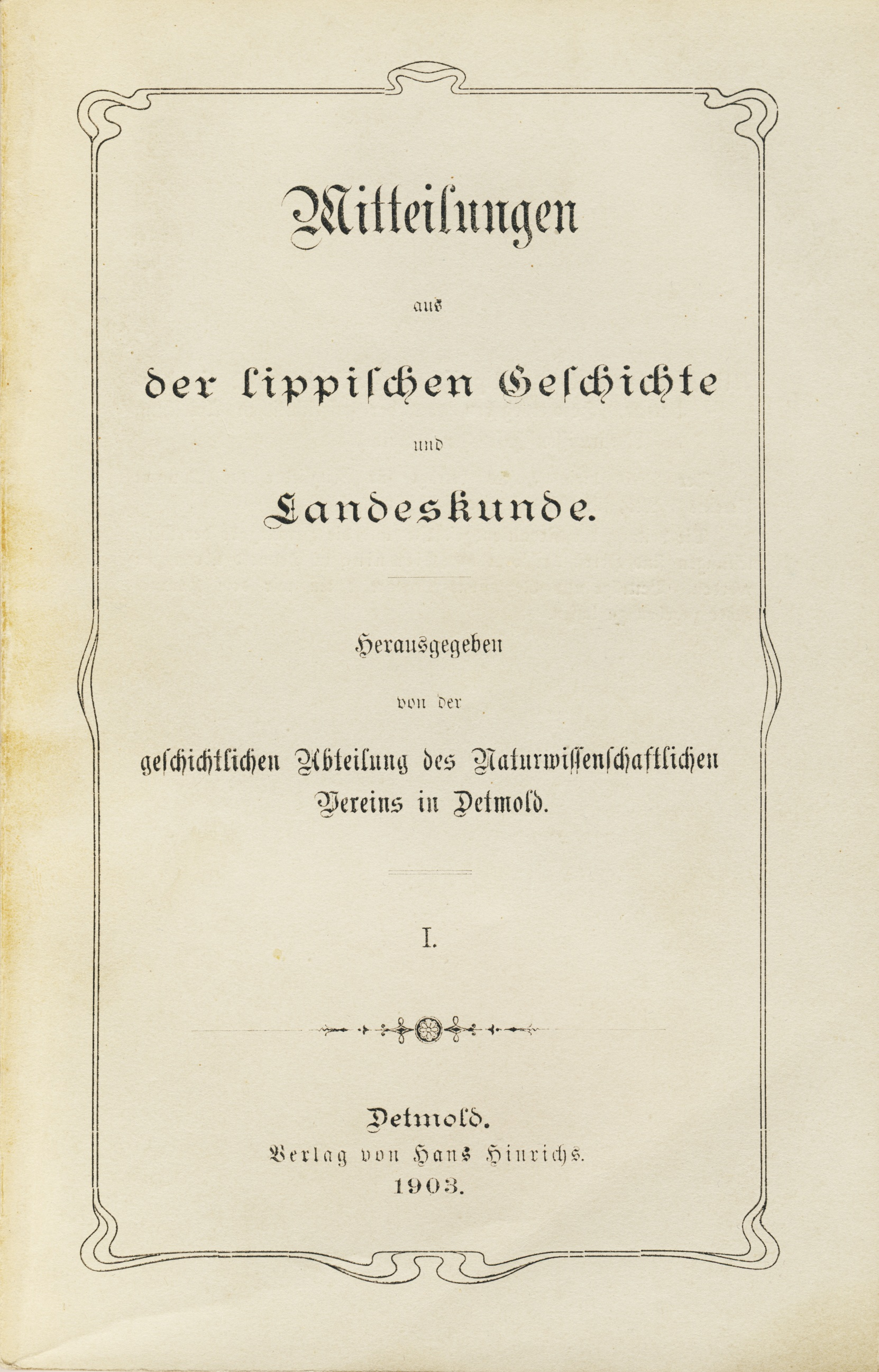 Cover of issue 1 of "Lippische Mitteilungen"